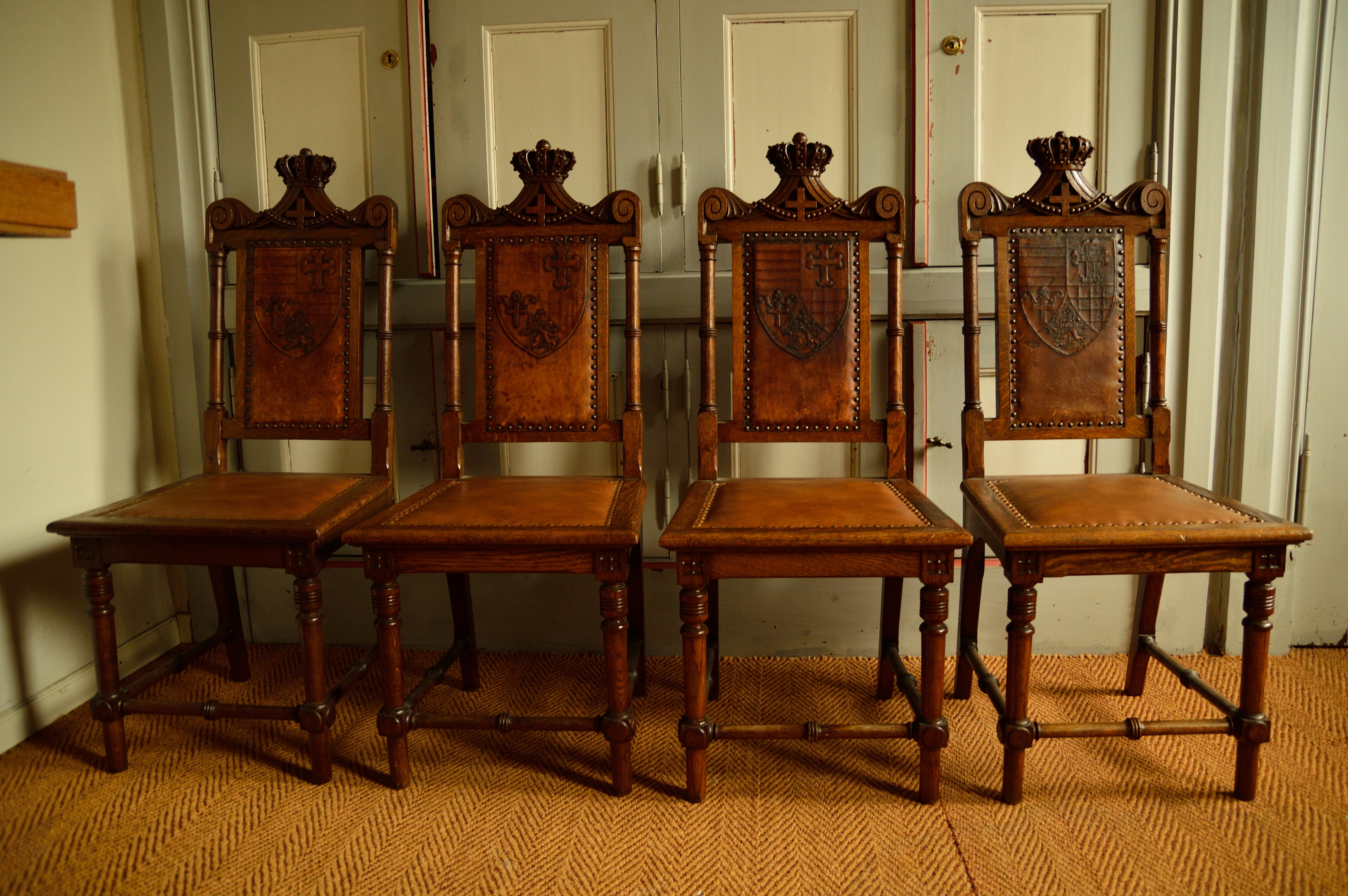 Garnisonkirche Oldenburg inner view